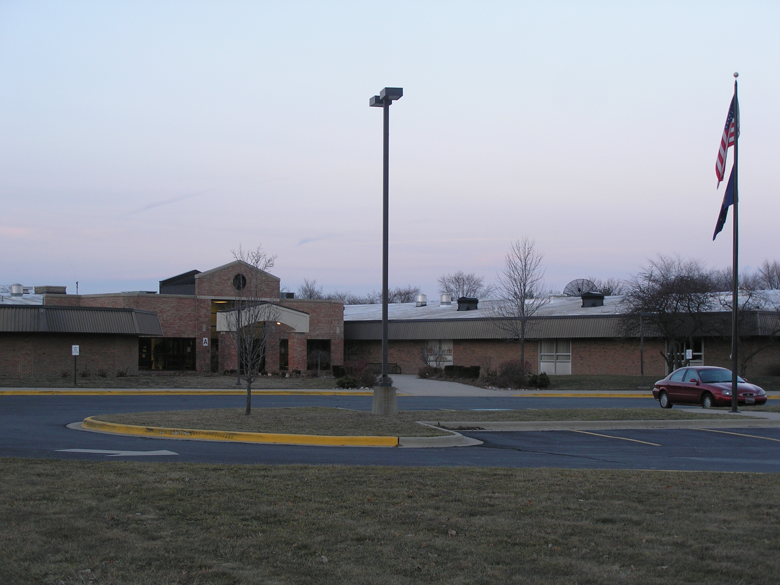 Munster, Indiana - Frank Hugh Hammond (FHH) Elementary School.